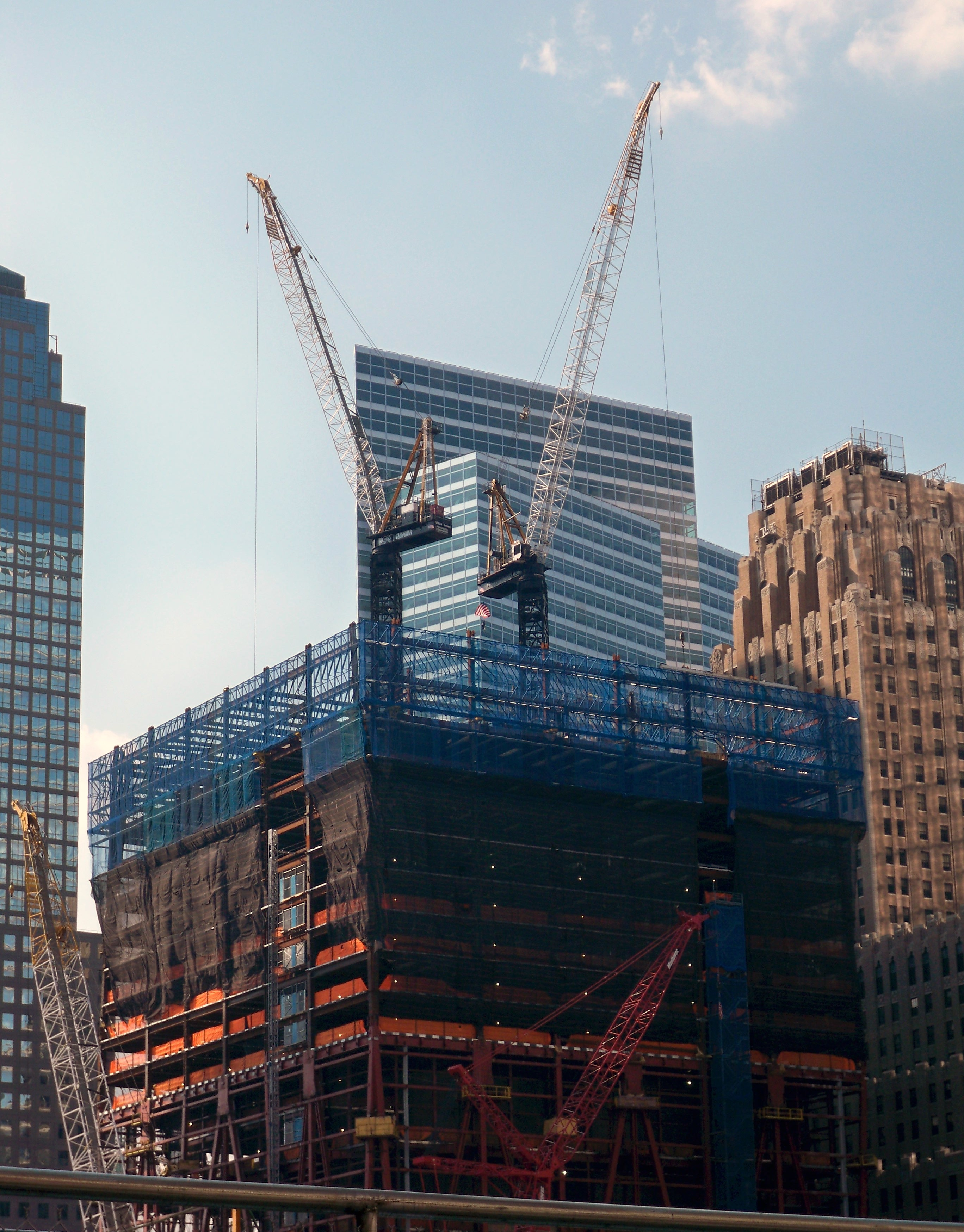 The building of Freedom Tower.